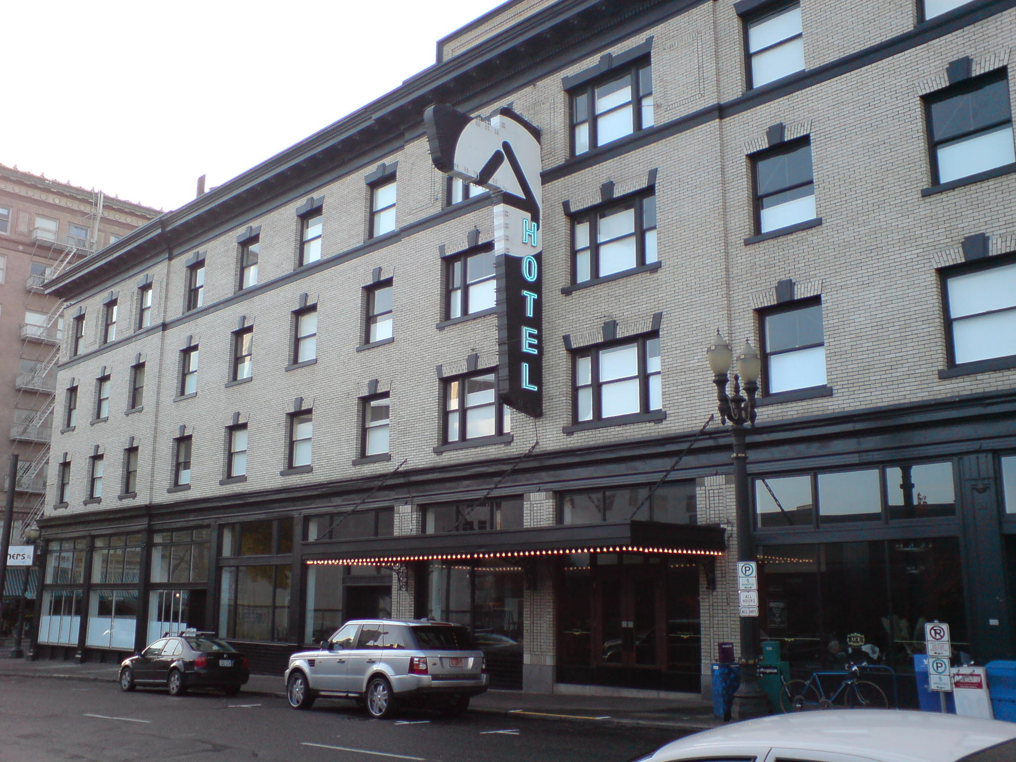 Clyde Hotel (now Ace Hotel, formerly Ben Stark Hotel)